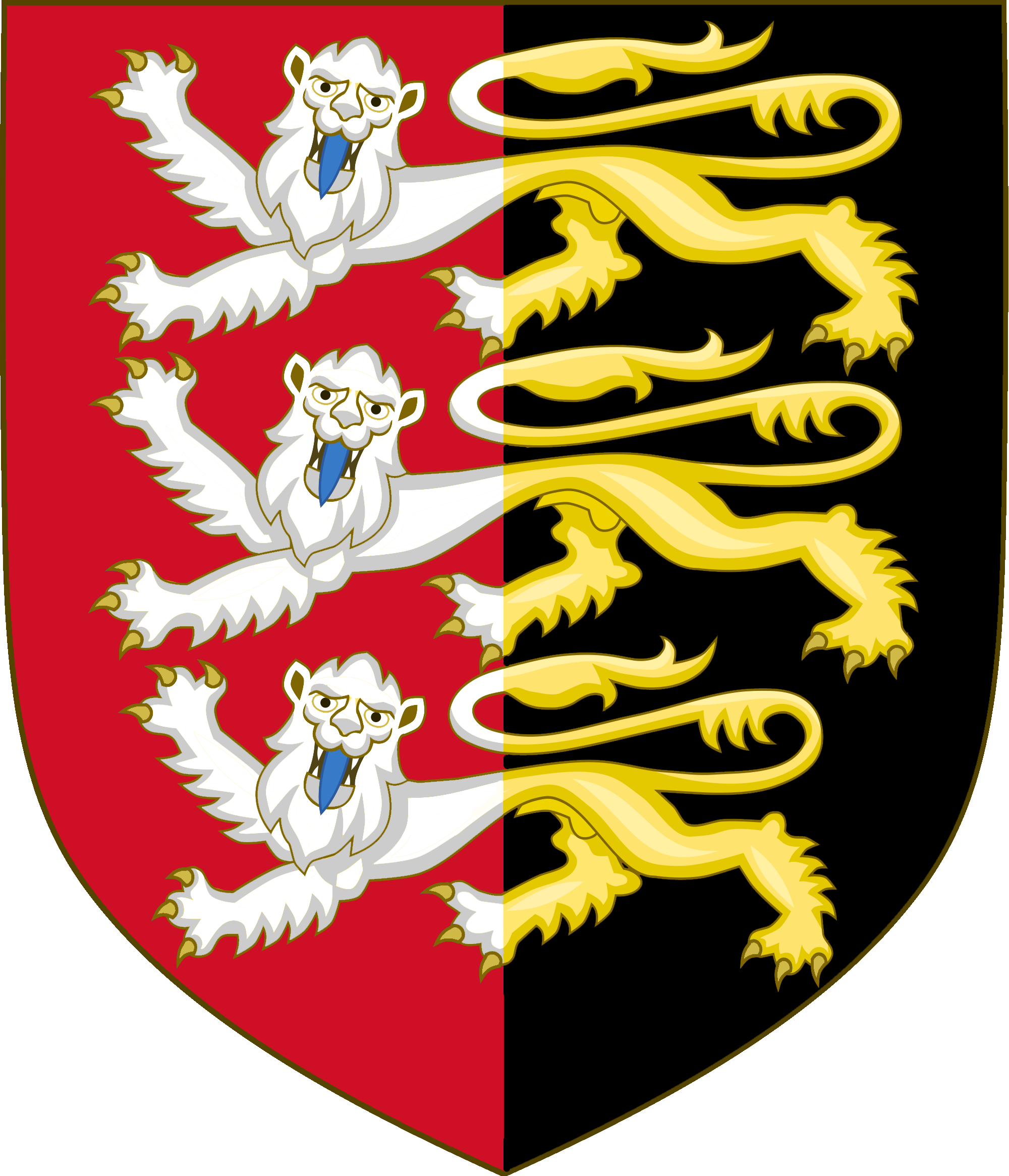 O'Grady family arms.